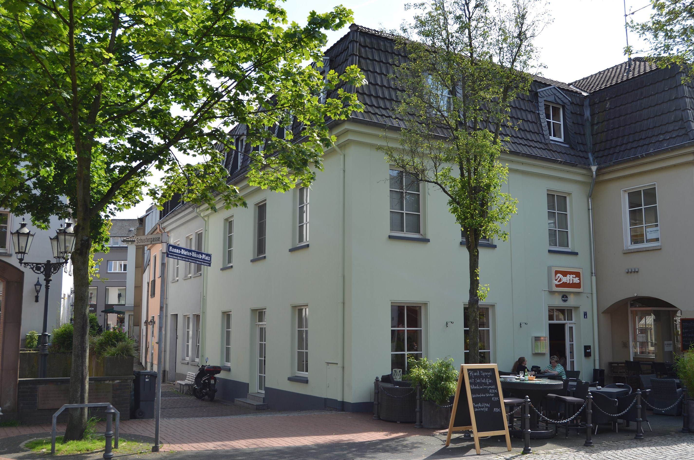 Moers (North Rhine-Westphalia, Germany) – house with restaurant This photograph was taken with a Nikon D7000.